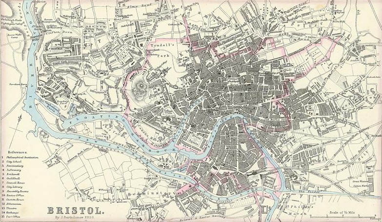 A map of Bristol in England published by A Fullarton & Co. in 1866.